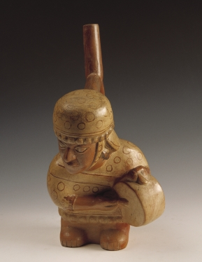 Moche ceramic vessel depicting a man playing a drum